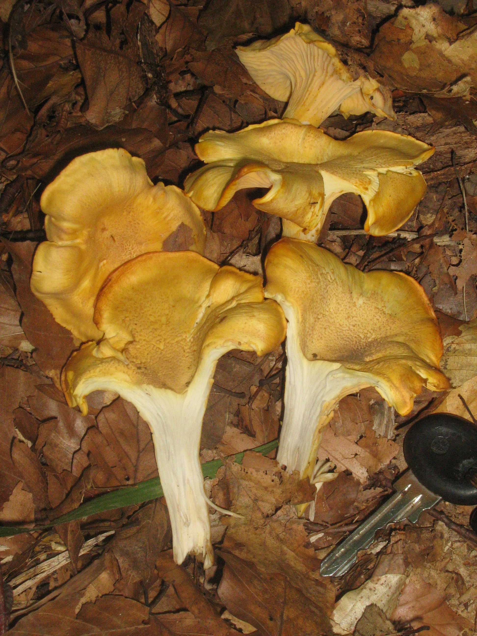 Cantharellus cibarius.